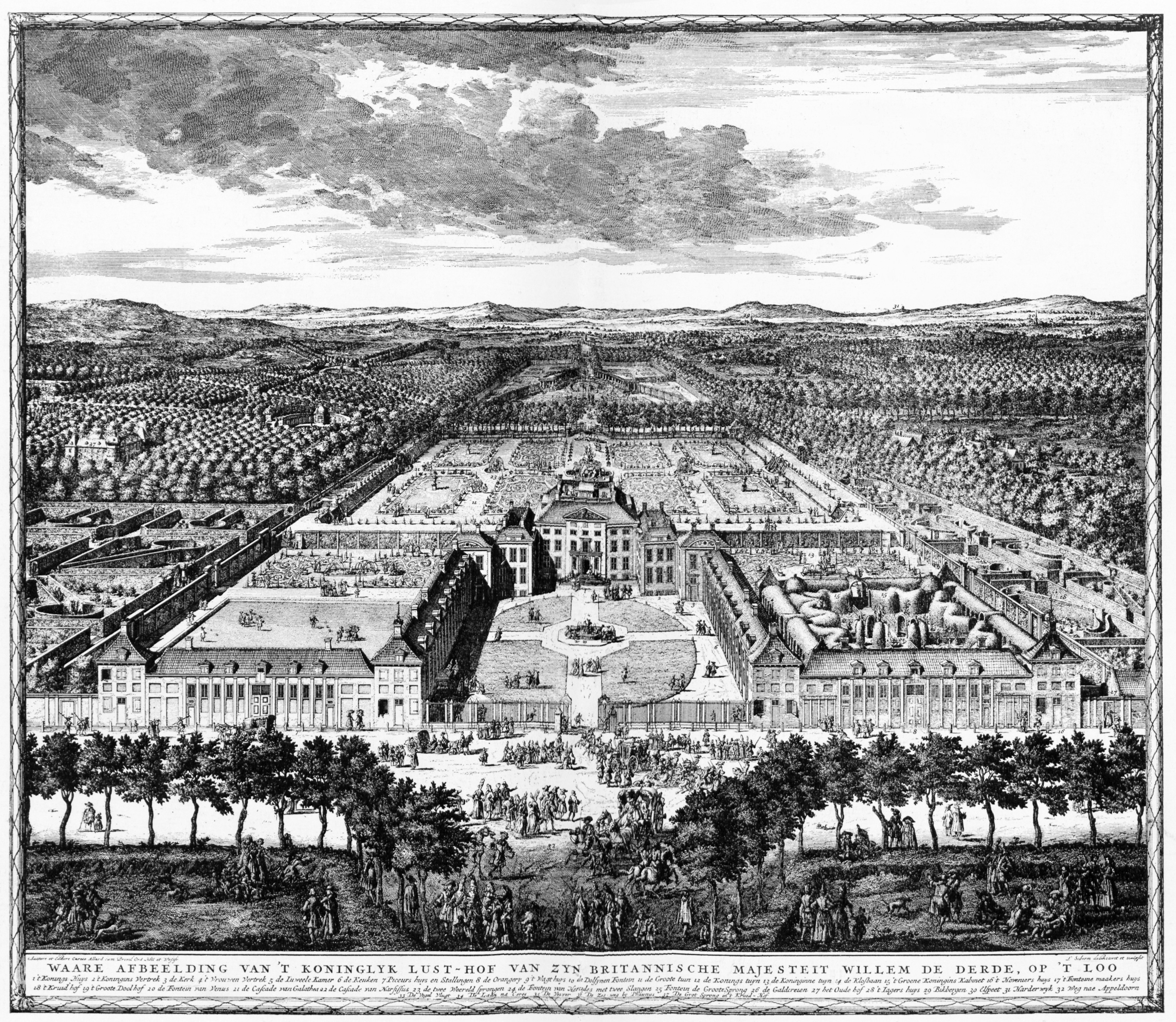 Garden craft in Europe. London 1913. Palte between page 190-191. Het Loo